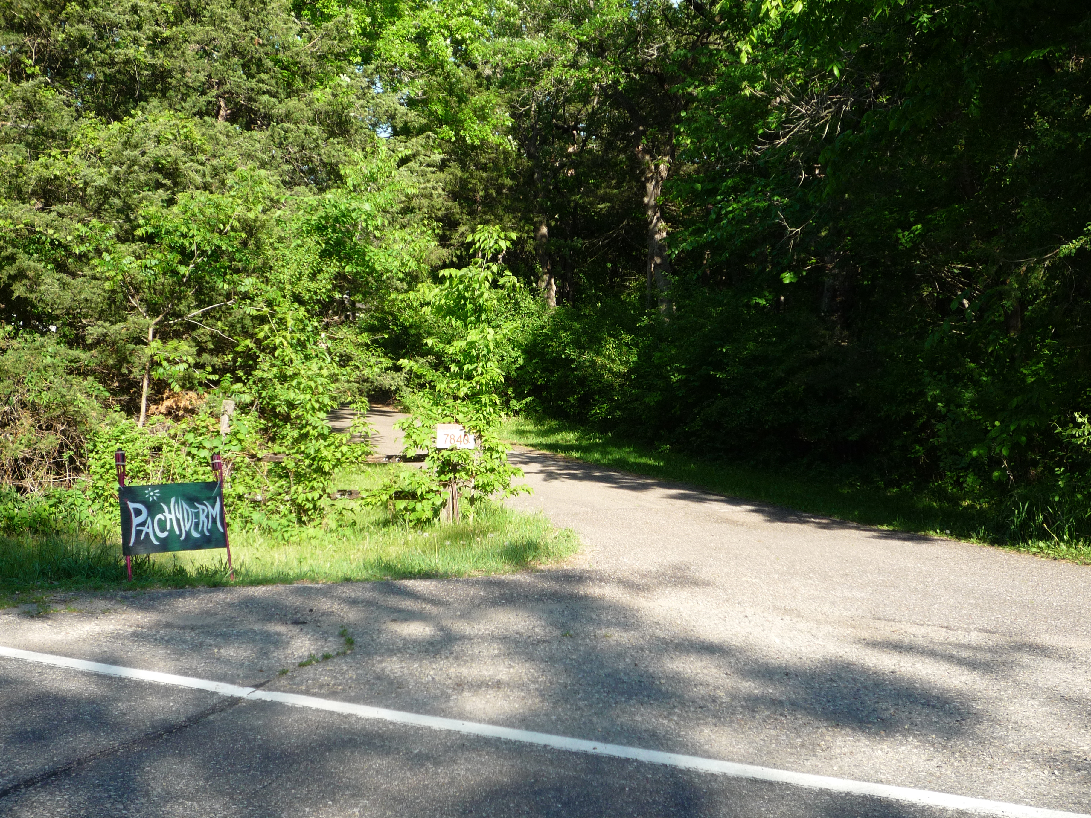 Driveway and sign to the secluded home used for the Pachyderm Studio, just outside Cannon Falls, Minnesota, USA.